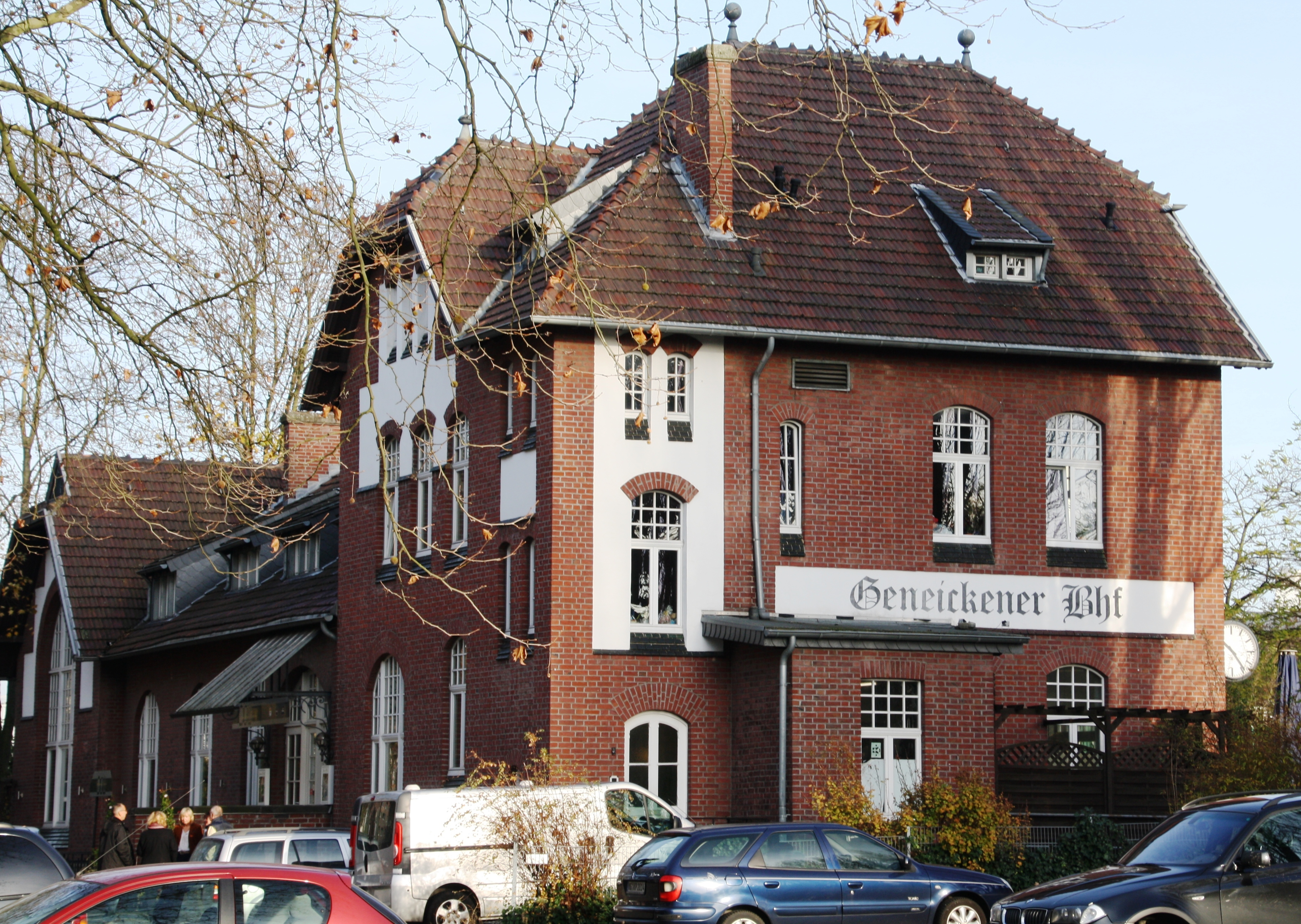 Geneickener-Bahnhof-Moenchengladbach-2014-rail station